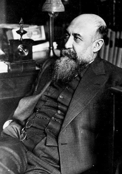 Nicolae Iorga